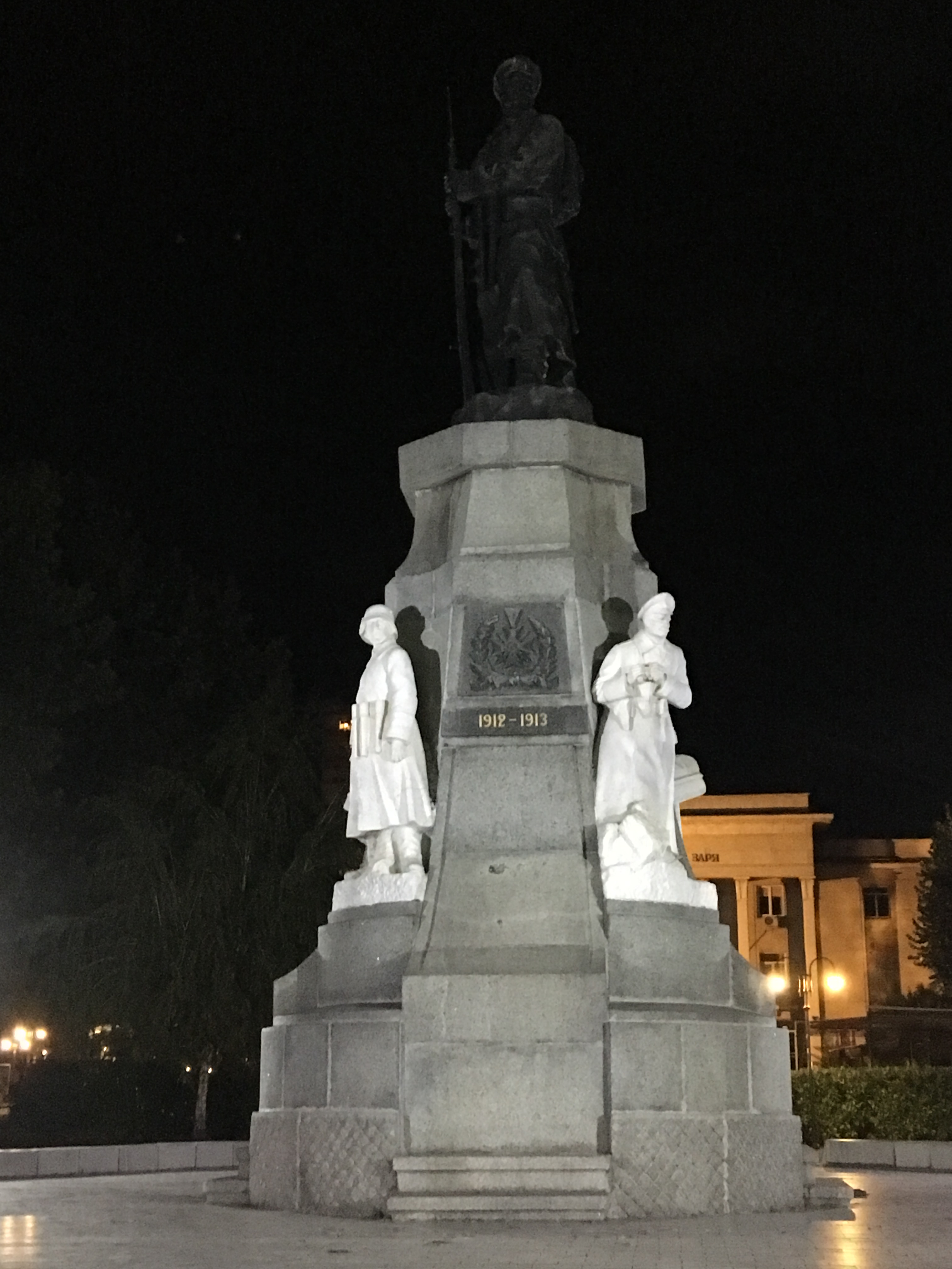 Monument of the Unknown soldier, Haskovo